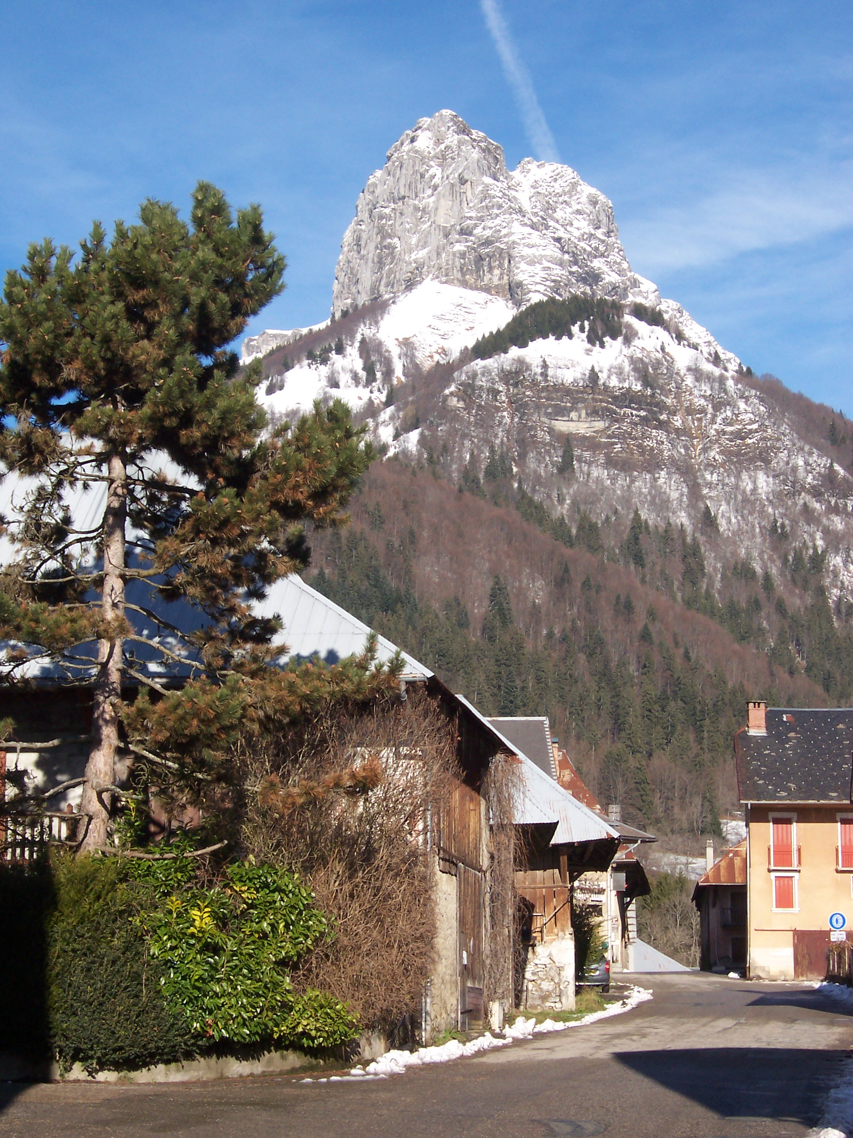 main street of the village of Jarsy (Savoie, France)